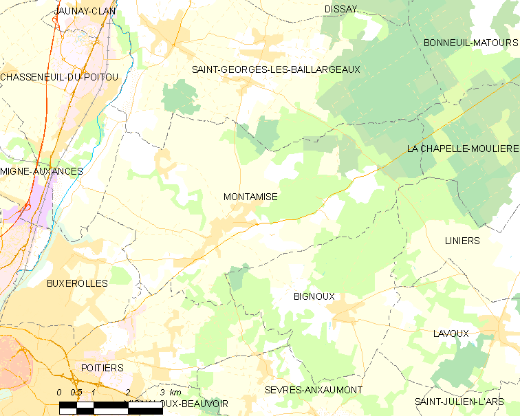 Map of French municipality Montamisé